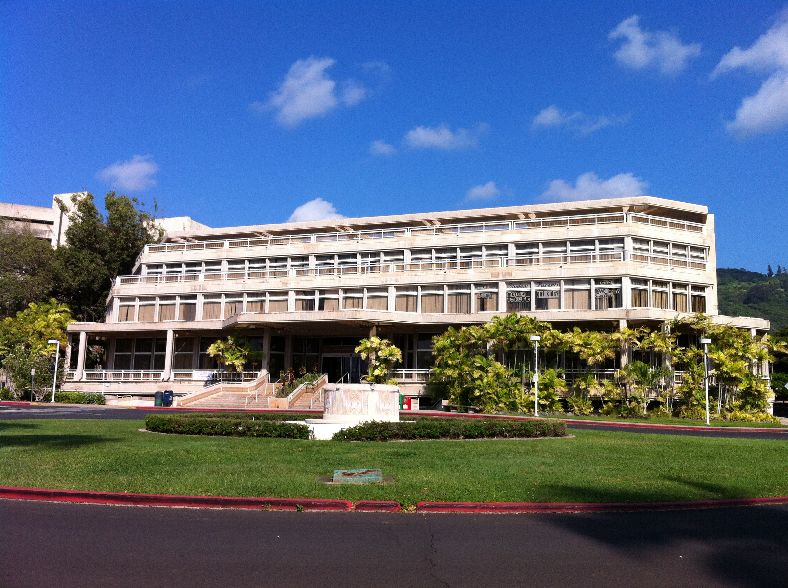 University of Hawaii - Liliuokalani Center for Student Services